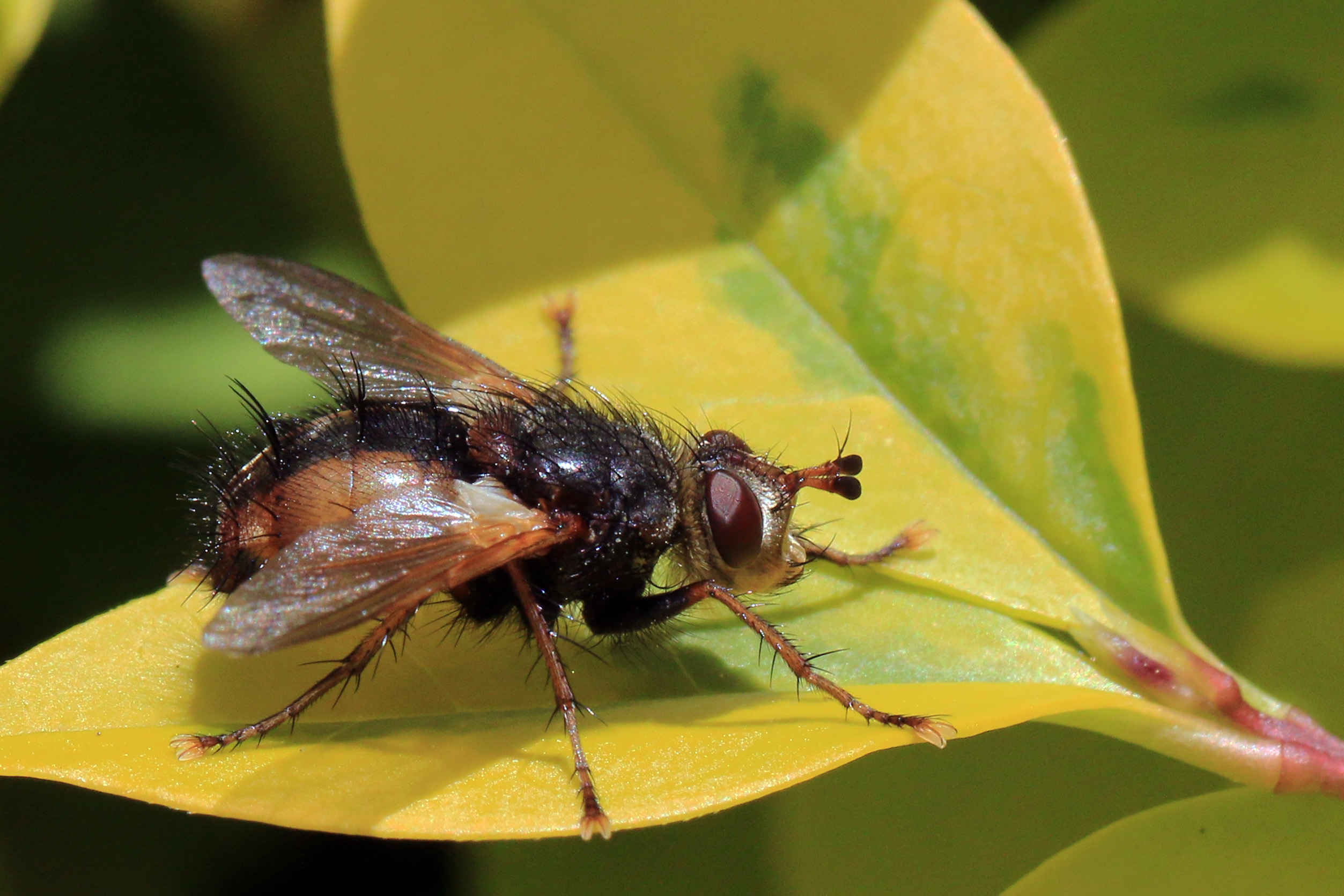 Tachinid fly (Tachina fera), Cumnor Hill, Oxford